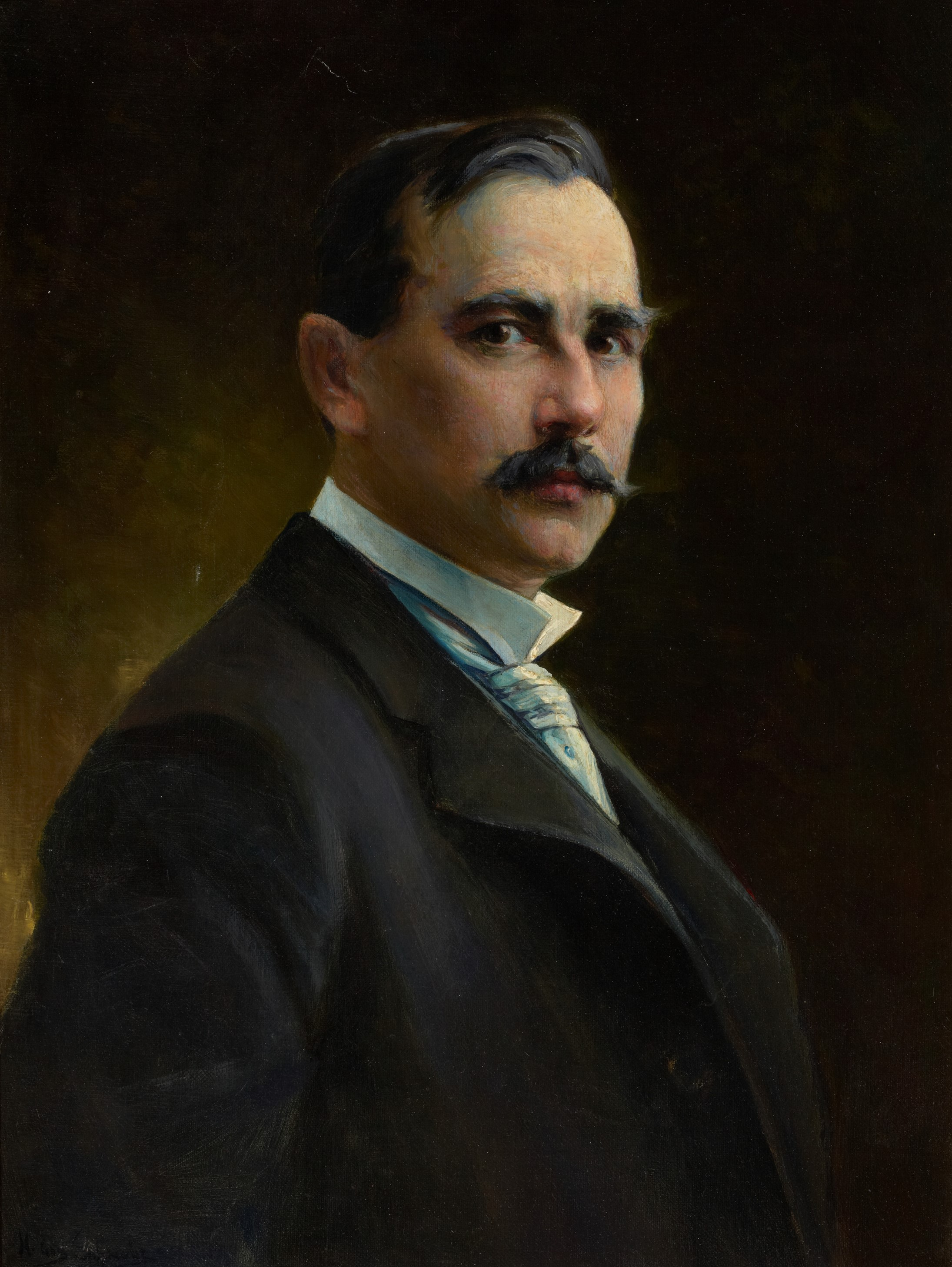 Portrait of Charles Schreyvogel, by Henry August Schwabe (Oil on canvas. 19-1/2 x 14-1/2 inches)